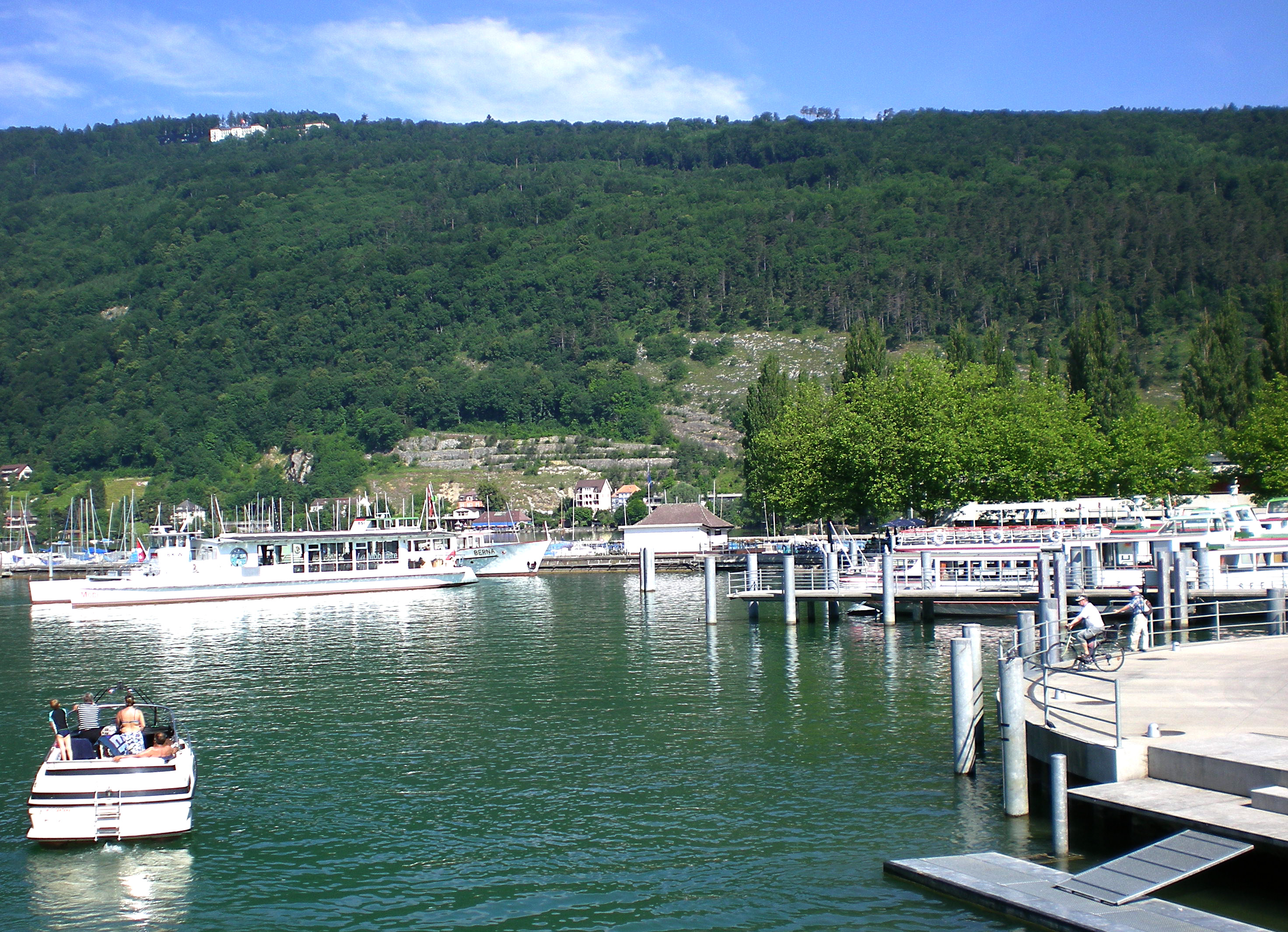 Port Bienne Mountain Magglingen